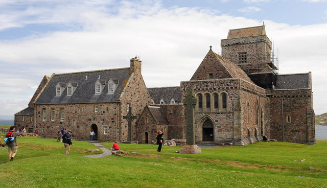 Abbey on the Isle of Iona Another view of the Abbey on the Isle of Iona